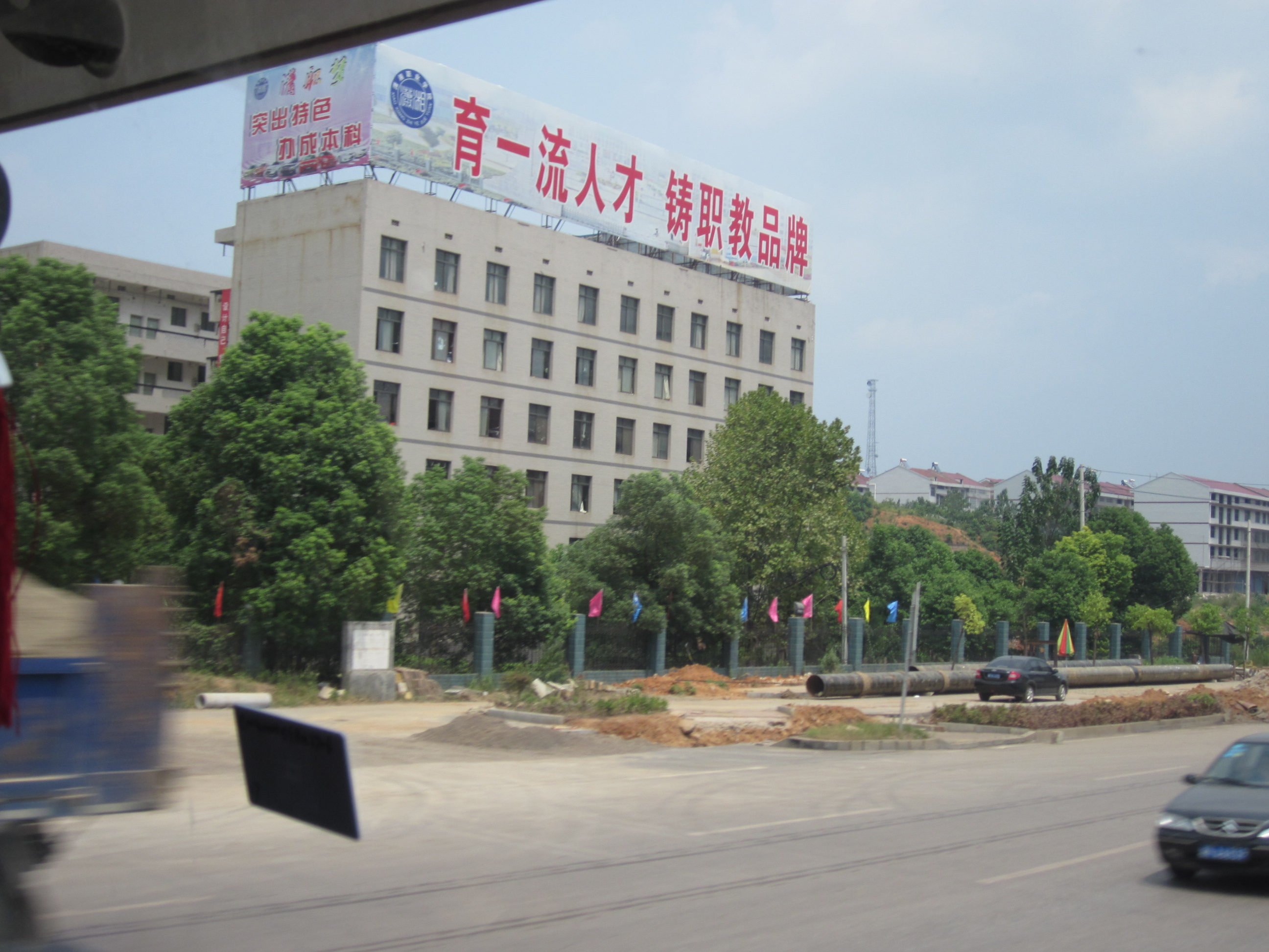 Xiaoxiang Vocational College, located in Loudi City, Hunan Province.